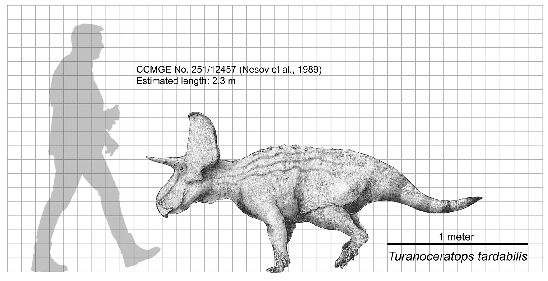 Scale diagram of Turanoceratops tardabilis